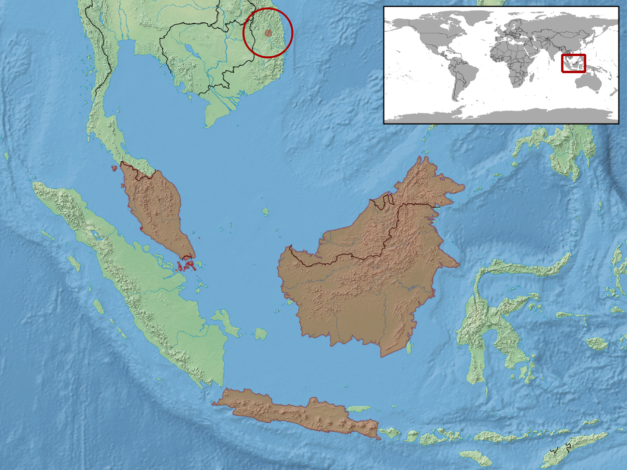 geographic distribution of Calamaria lovii following RDB's definition treating C. (l.) gimletti as subspecies (Native: Brunei Darussalam; Indonesia (Jawa, Kalimantan, Sumatera); Malaysia (Sabah, Sarawak, Peninsular Malaysia); Viet Nam)